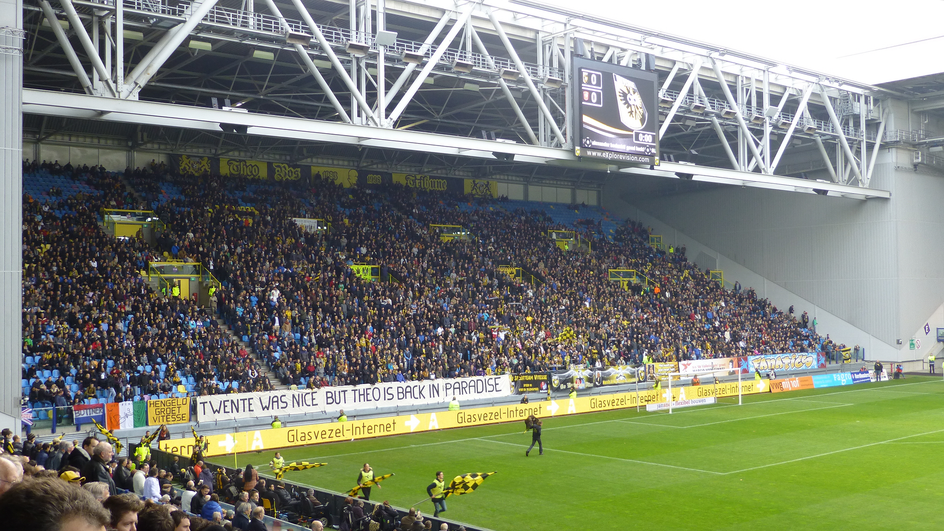 The Theo Bos South stand in Gelredome shortly before kickoff of the Eredivisie match Vitesse vs. FC Twente